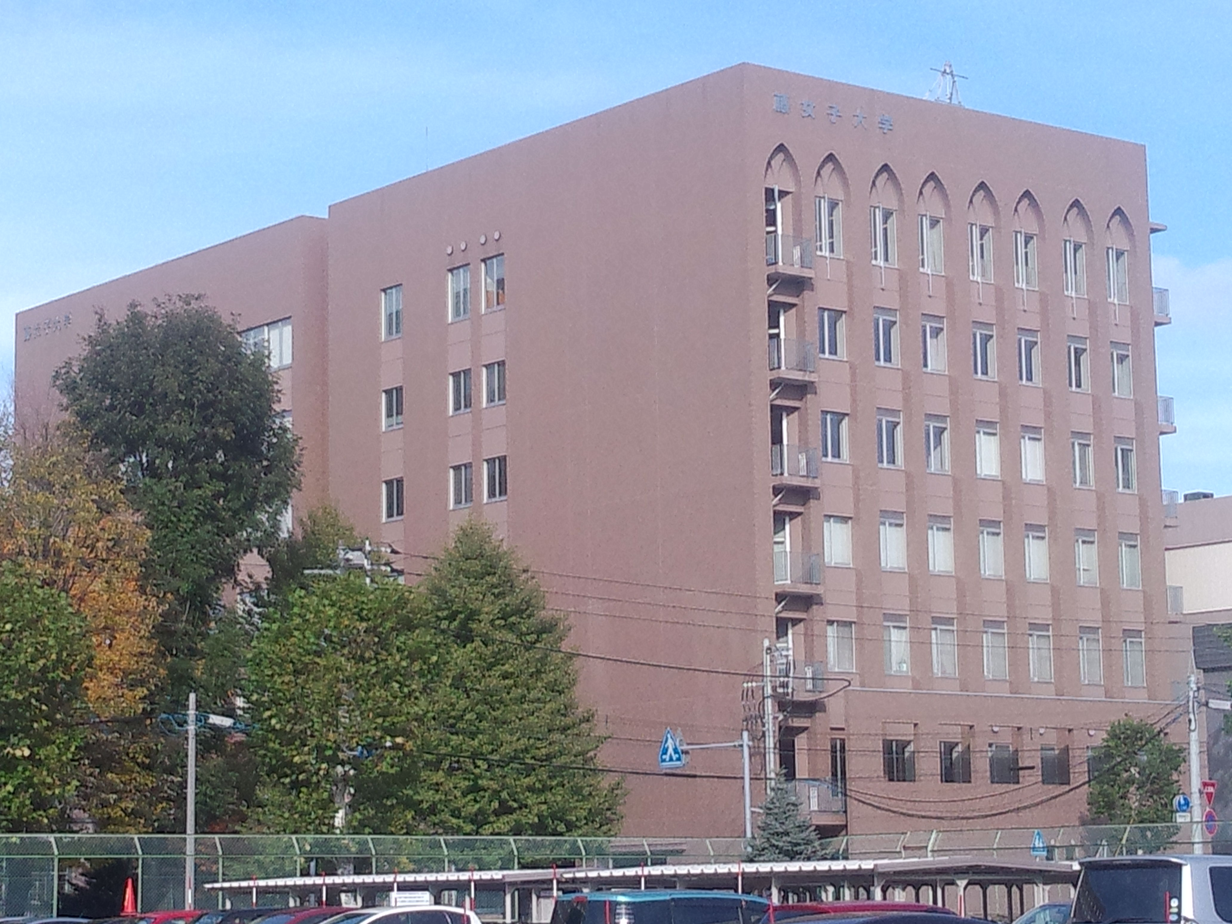 Fuji Women's University located in Sapporo, Hokkaido, Japan.